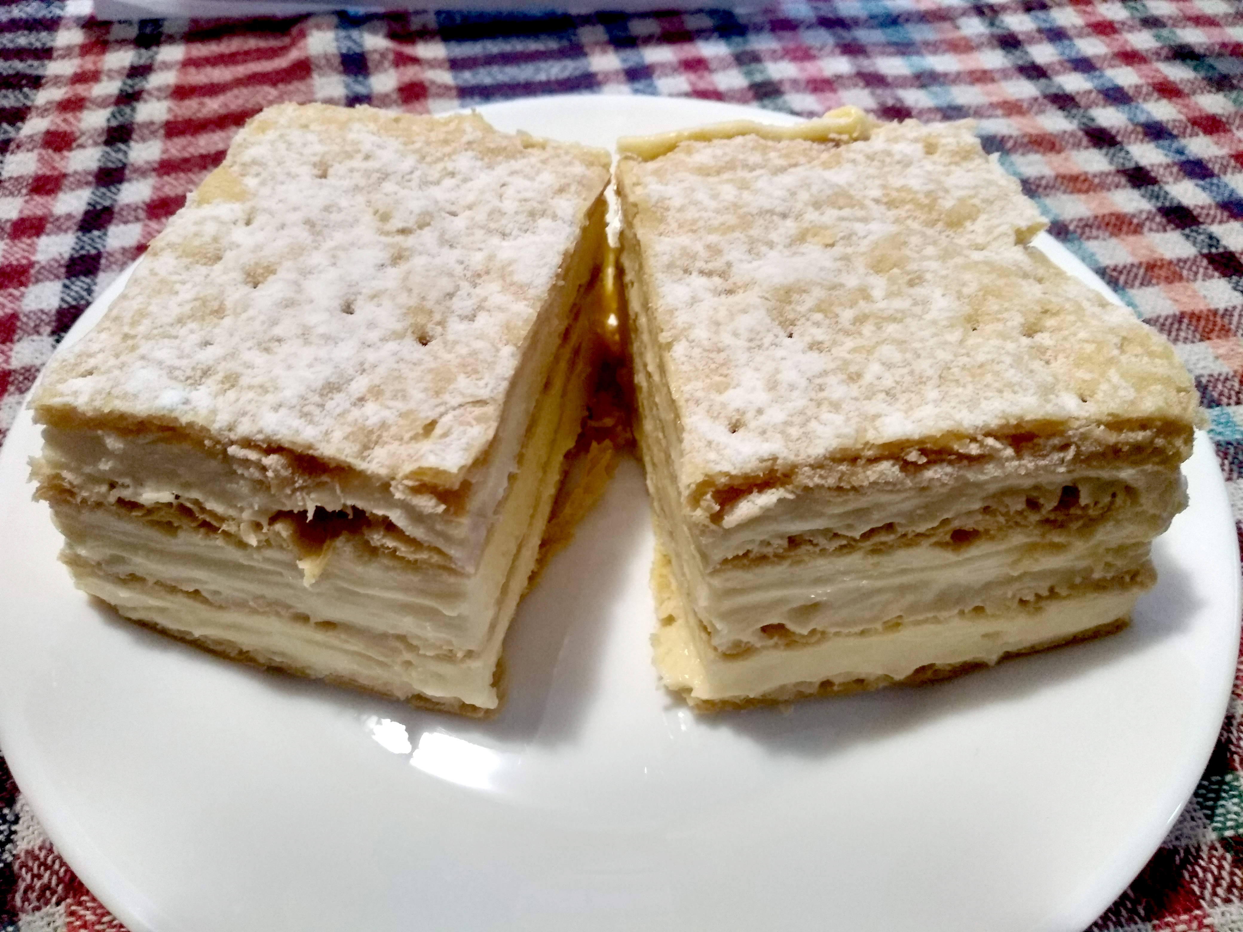 Kotor Cremeschnitte with three layers of dough and two layers of cream